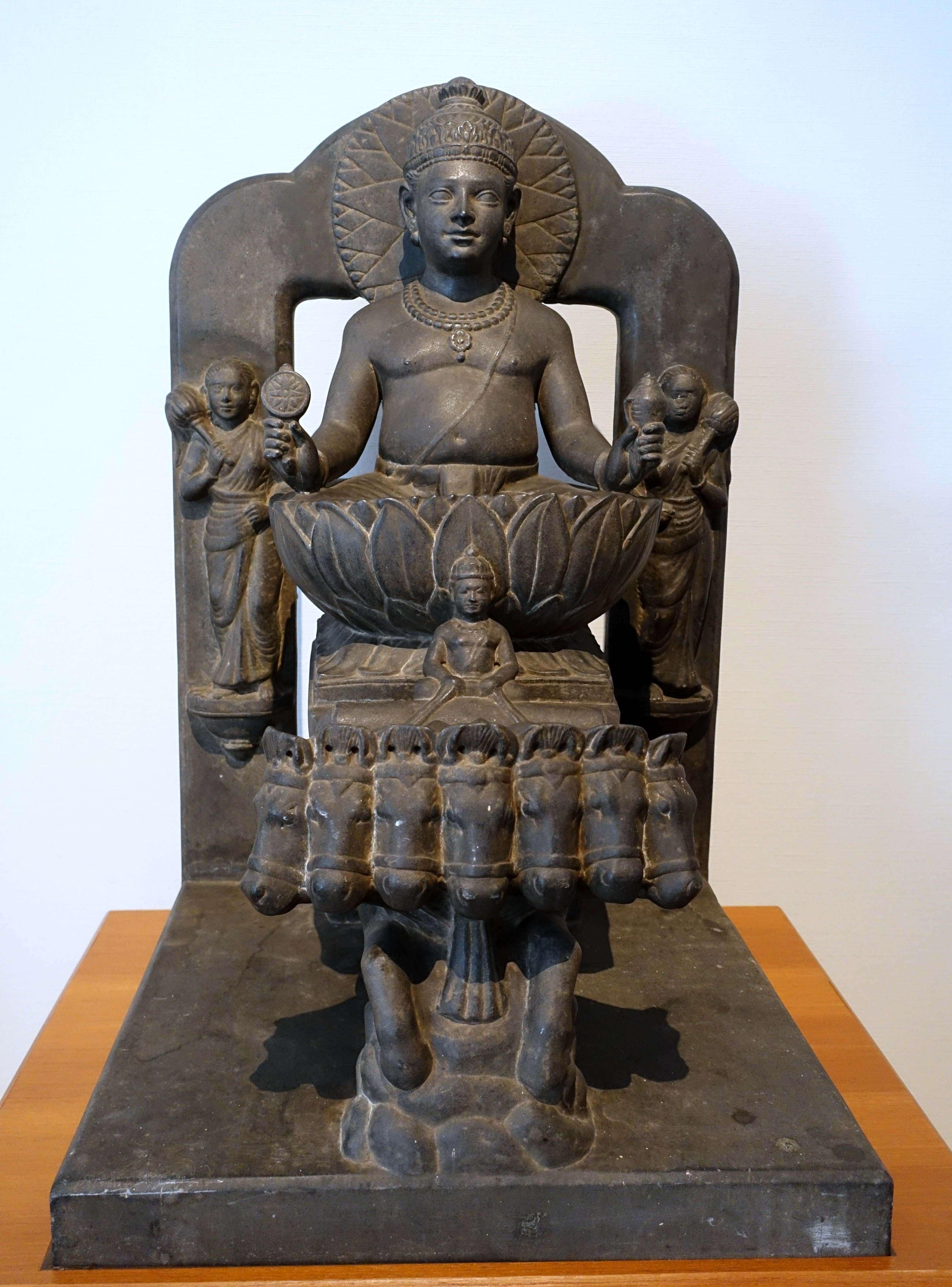 Exhibit in the Matsuoka Museum of Art - 5 Chome-12-6 Shirokanedai, Minato, Tokyo 108-0071, Japan.